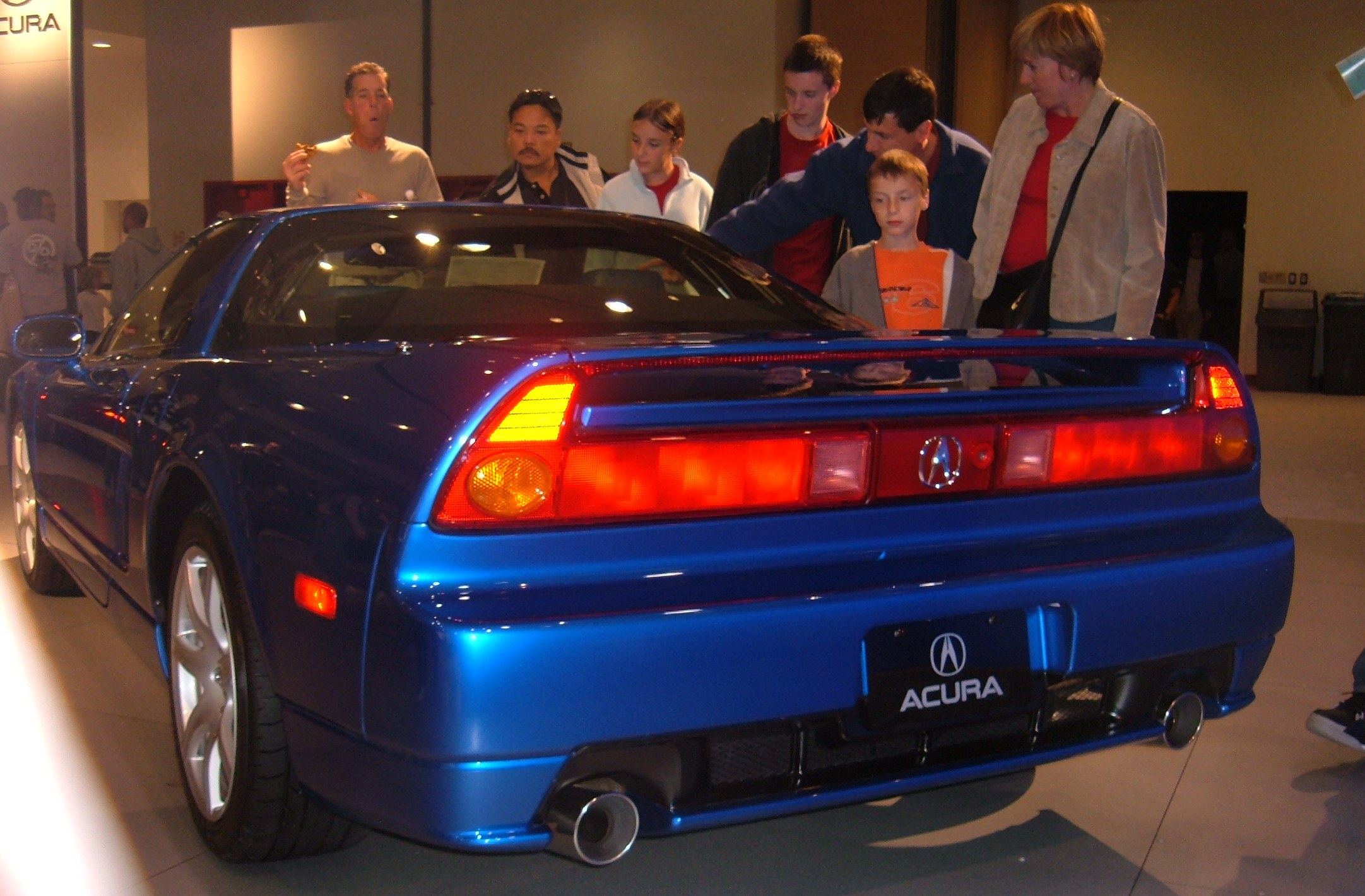 A 2005 Acura NSX at the 2004 San Francisco International Auto Show.